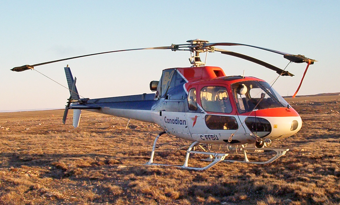 C-FFBU Canadian Helicopters Astar AS-350-BA (AS50) Picture taken 16th June 2005 at 19:01 MDT (17th June 2005 01:01Z) at Cambridge Bay Airport, Nunavut, Canada